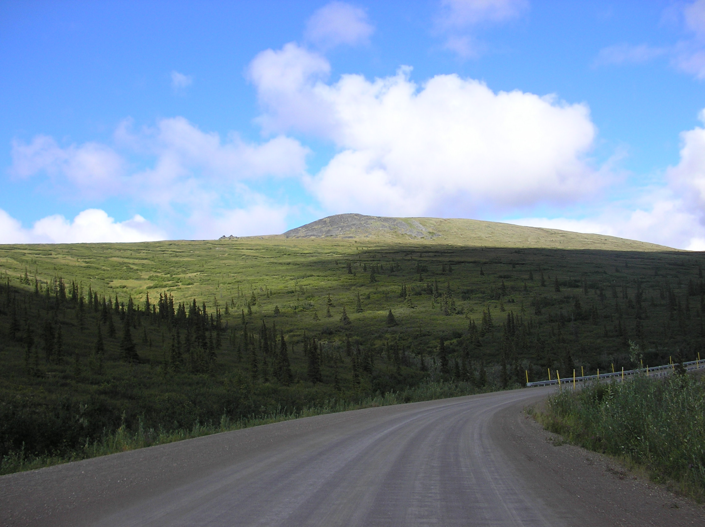 The Steese Highway is more than half gravel.